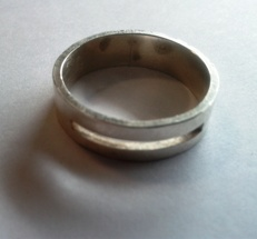 Ring designed after Minus' logo.